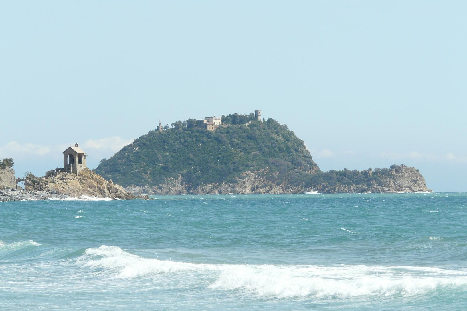 Isola Gallinara This is a photography of Natura 2000 protected area with ID IT1324908